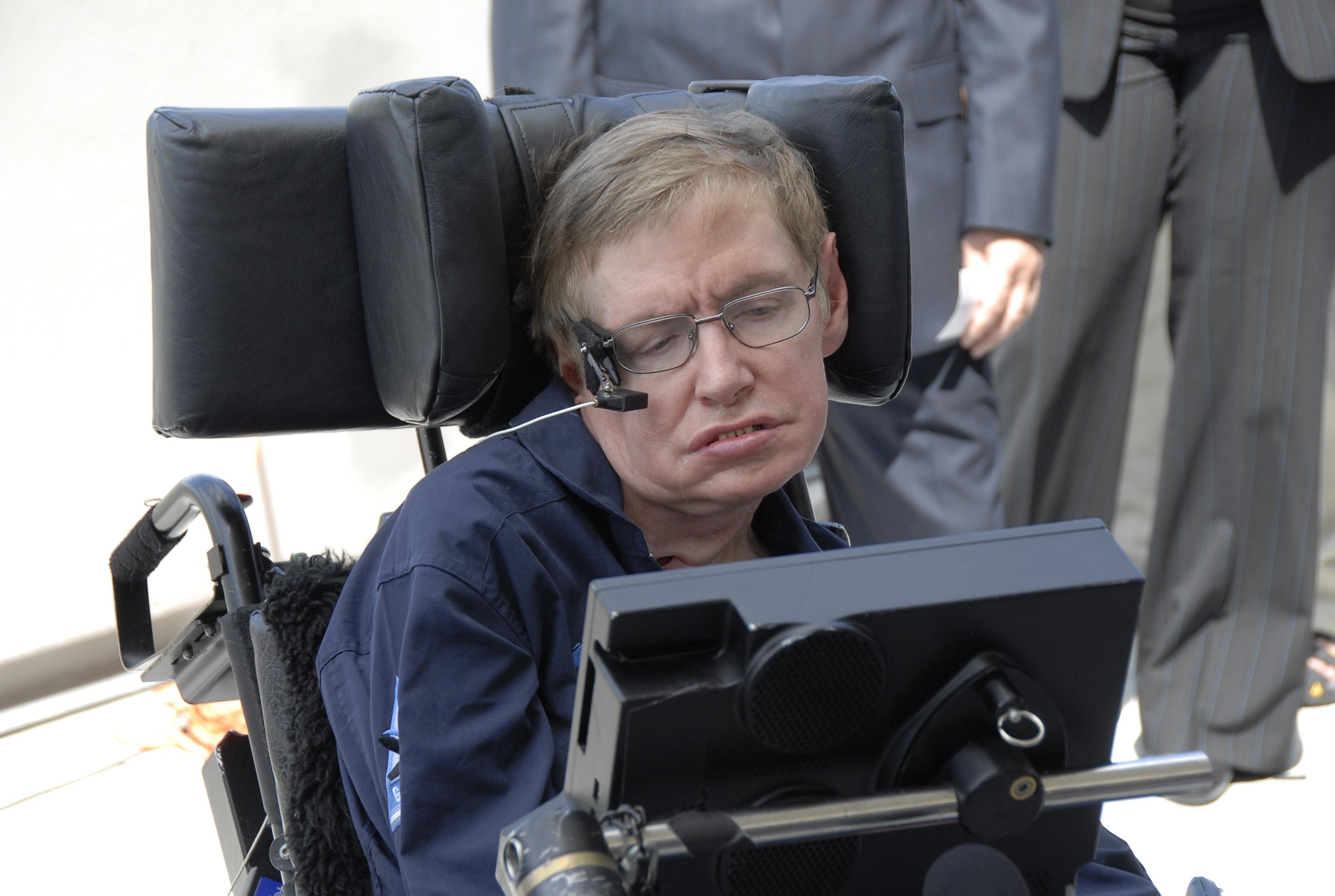 KENNEDY SPACE CENTER, FLA. -- Noted physicist Stephen Hawking arrives at the Kennedy Space Center Shuttle Landing Facility for his first zero-gravity flight. The flight will be aboard a modified Boeing 727 aircraft owned by Zero Gravity Corp., a commercial company licensed to provide the public with weightless flight experiences. Hawking developed amyotrophic lateral sclerosis disease in the 1960s, a type of motor neuron disease which would cost him the loss of almost all neuromuscular control. At the celebration of his 65th birthday on January 8 this year, Hawking announced his plans for a zero-gravity flight to prepare for a sub-orbital space flight in 2009 on Virgin Galactic's space service. Photo credit: NASA/Kim Shiflett.